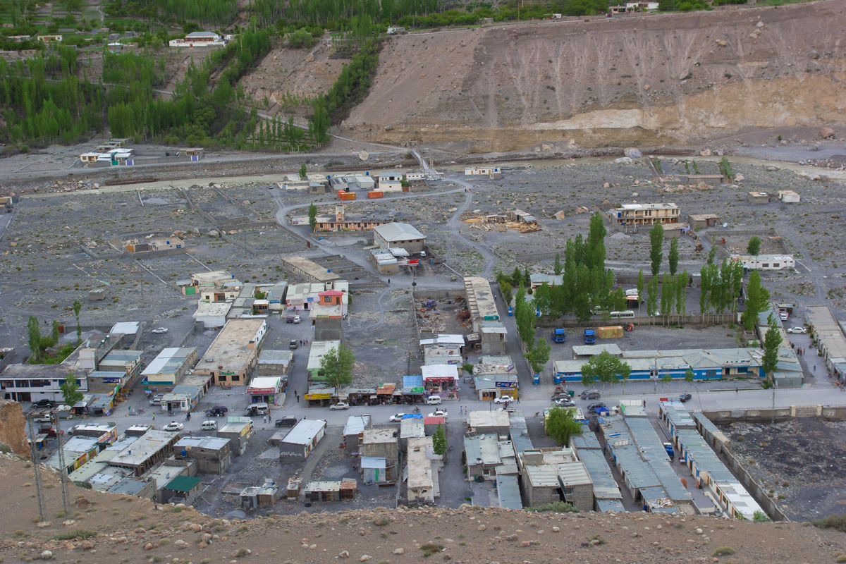 This picture contain the entire town of Sost with shops and hotels and KKH intersecting between the town